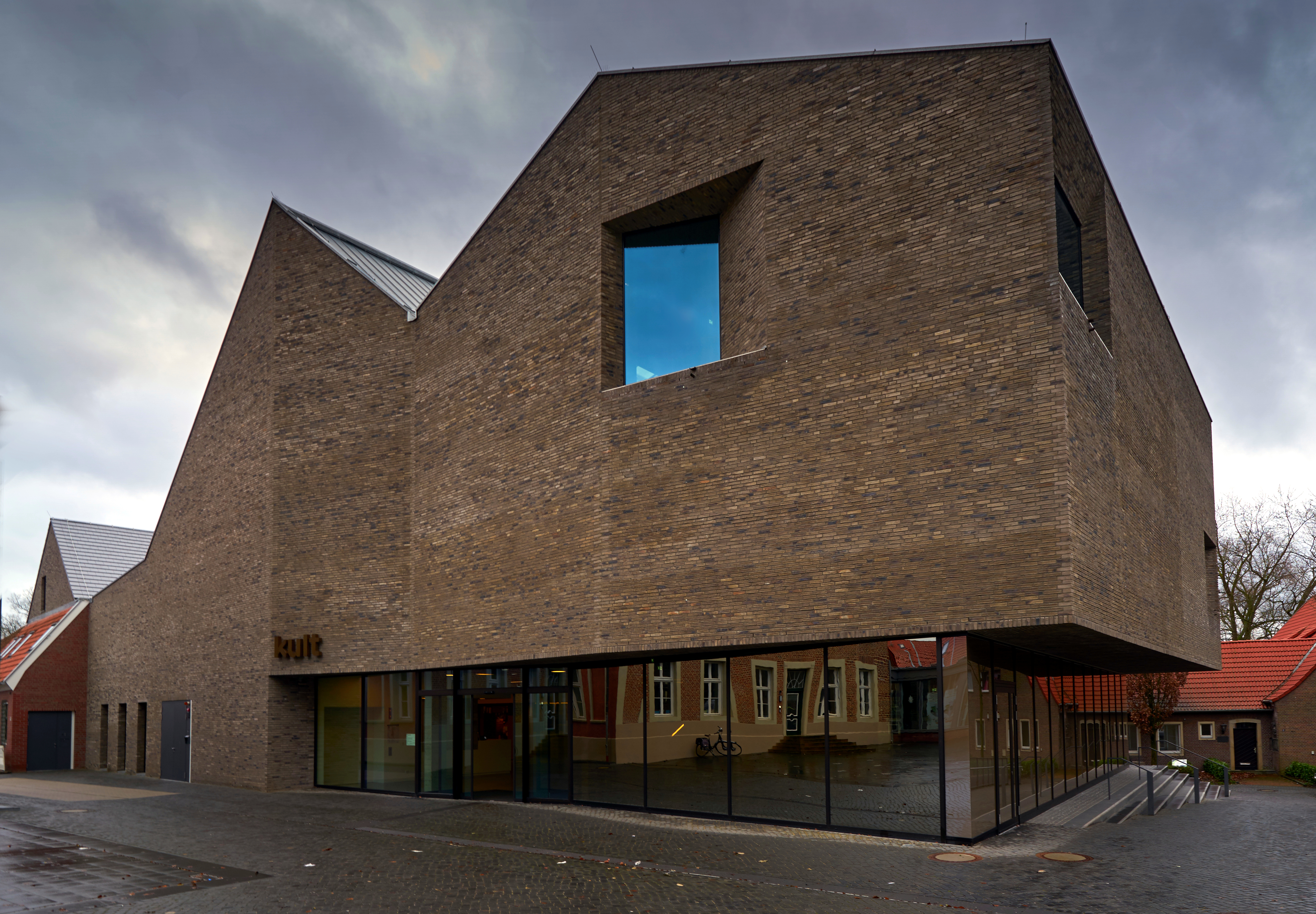 kult is a museum in Vreden, North Rhine-Westphalia, Germany.